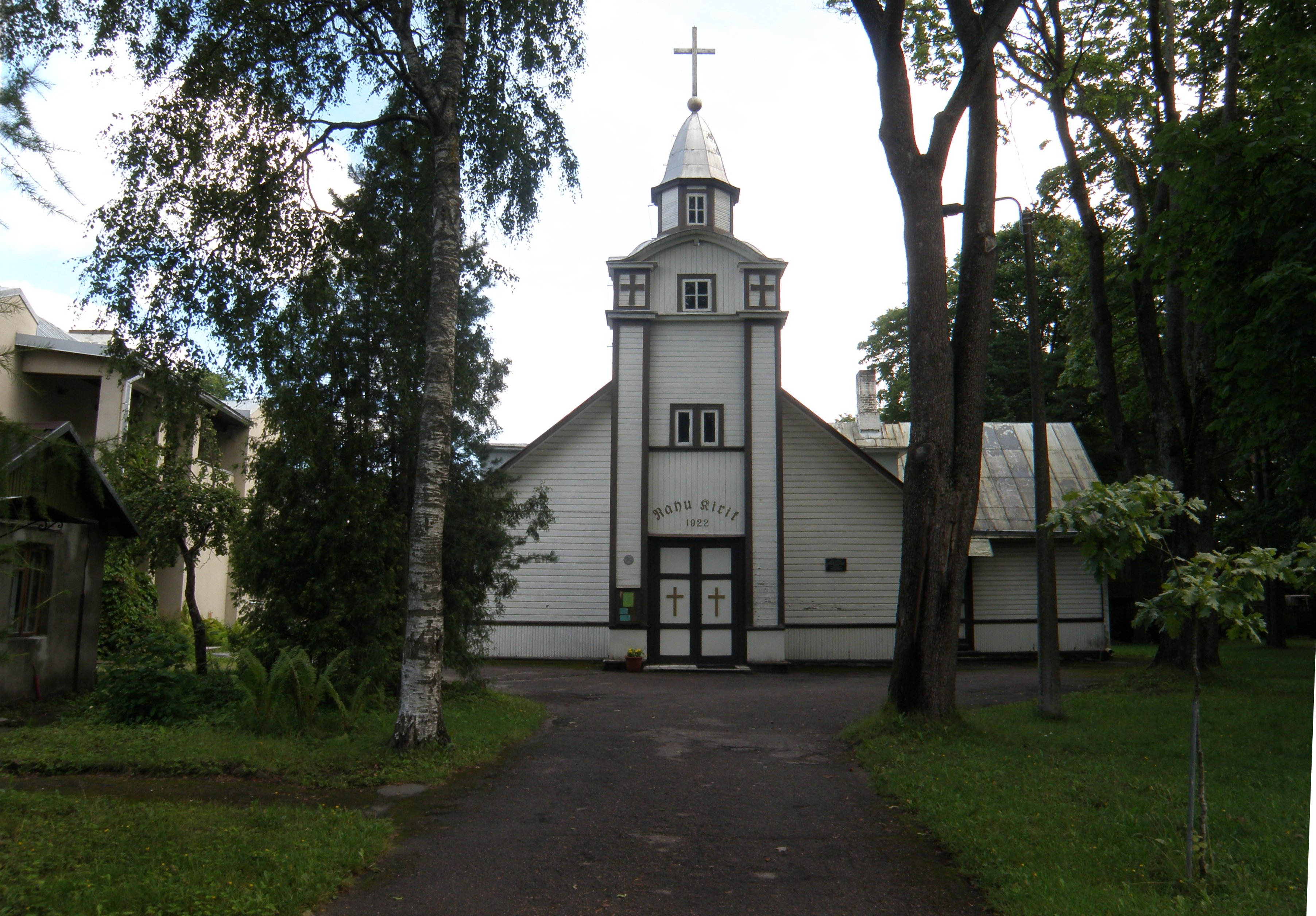 Nõmme Rahu Kirik